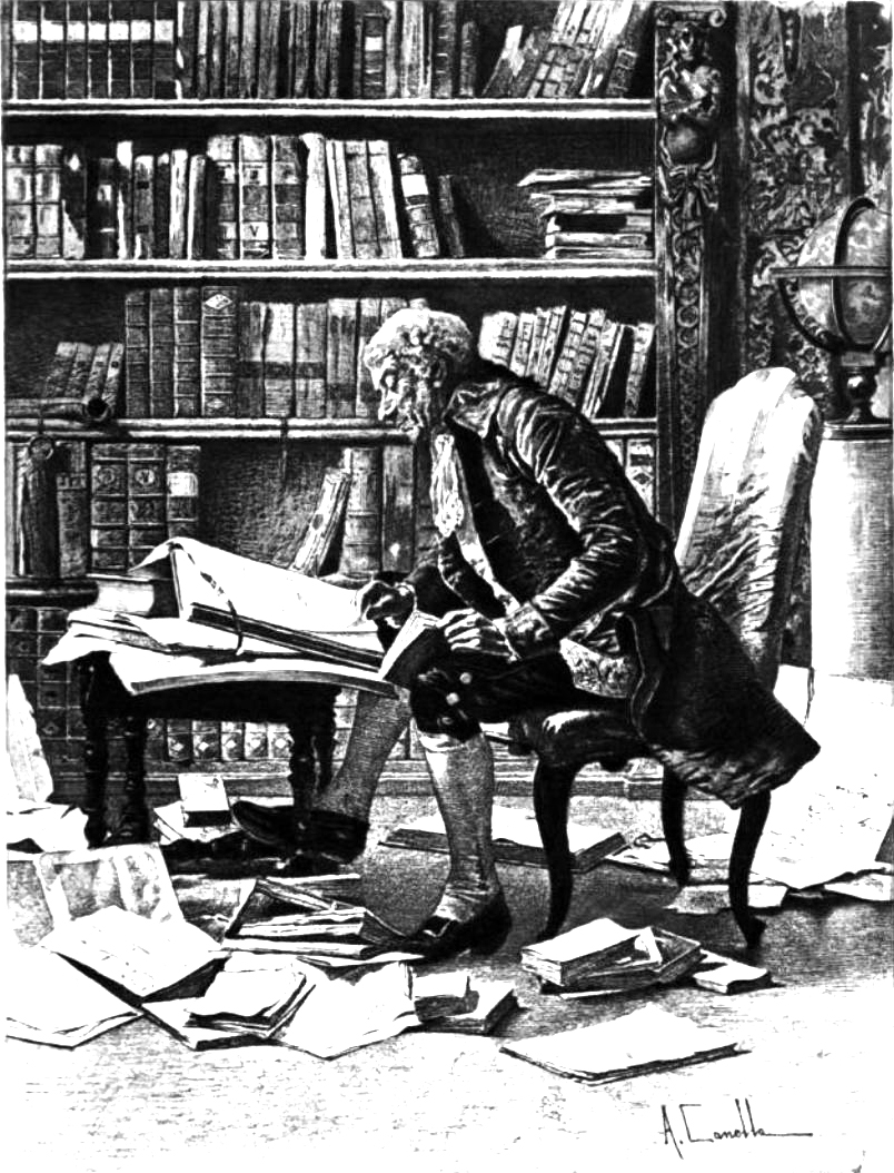 Engraving of an Erudite Researcher